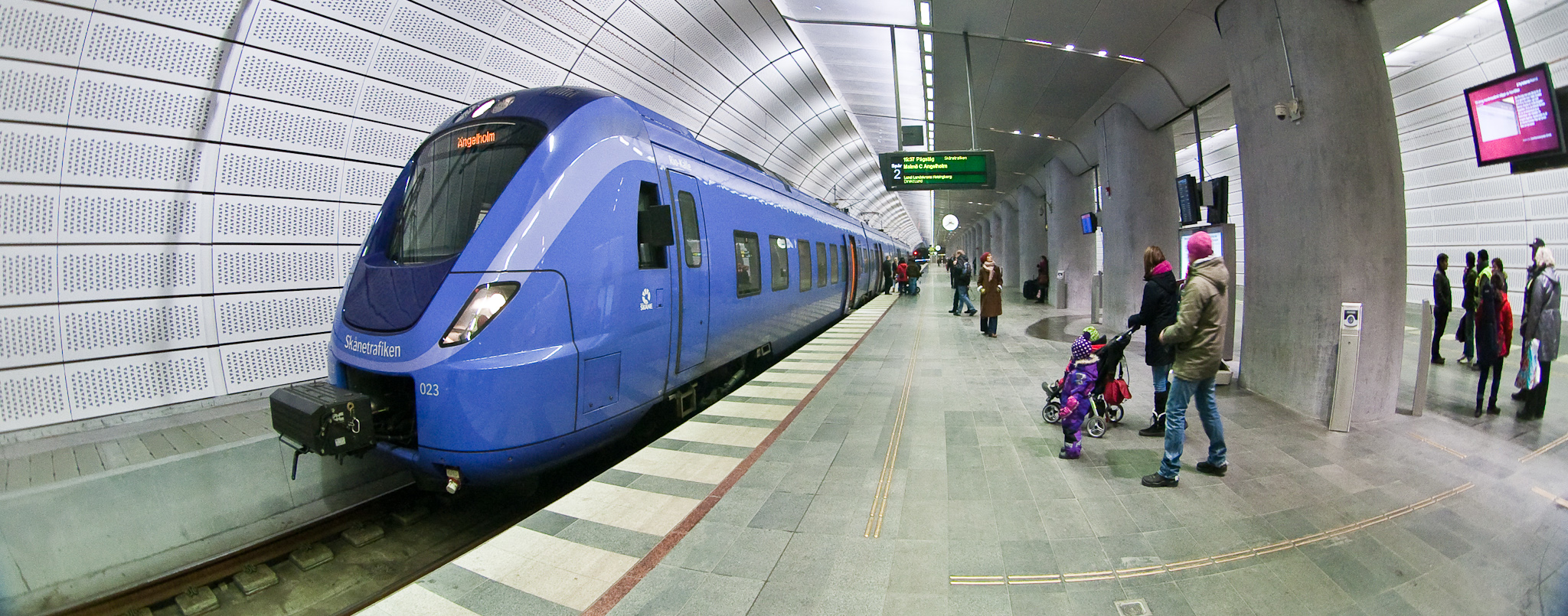 The Pågåtåg nr. 023 "Rio-Kalle" (type X61) pending departure from Triangeln Station in Malmö.